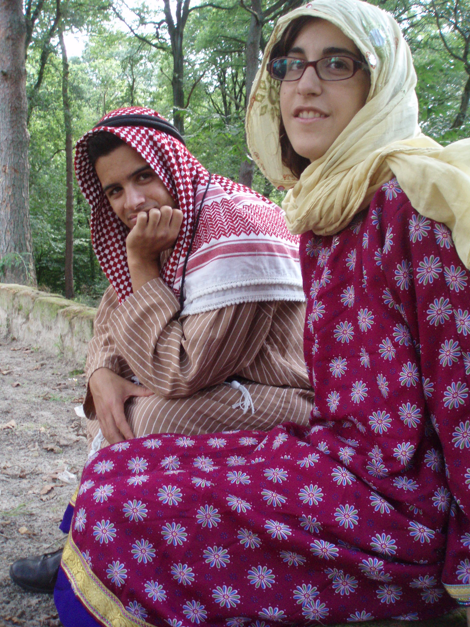 Jordan man with keffiyeh and woman with headscarf